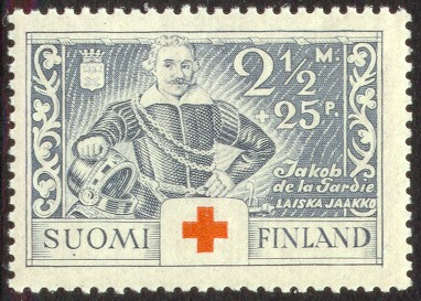 Postage stamp depicting count and statesman Jakob de la Gardie ("Laiska-Jaakko")